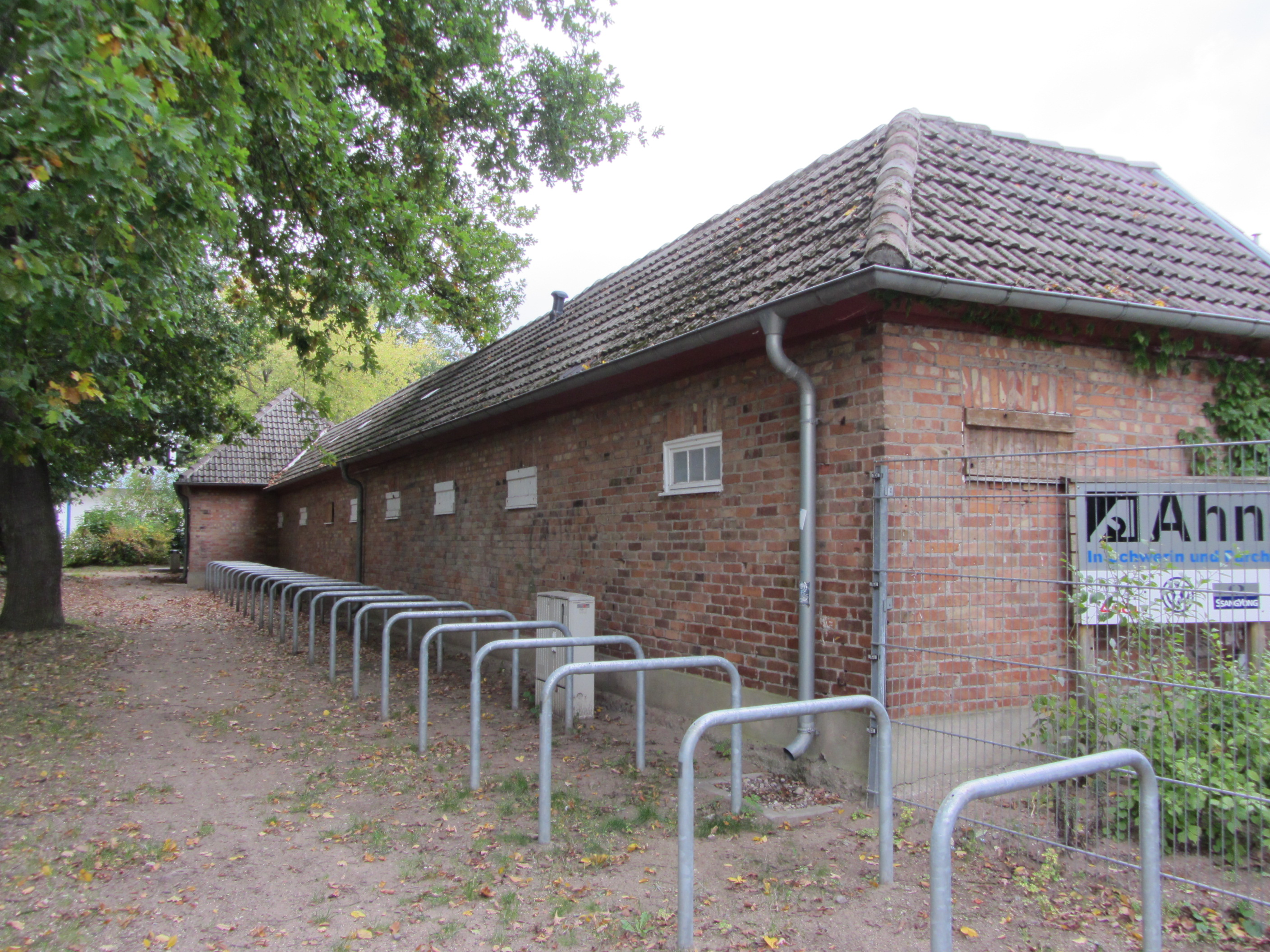 Bath on the Schweriner See at the Franzosenweg in Schwerin, Mecklenburg-Vorpommern, Germany